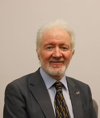 Irish politician Malcolm Noonan of the Green Party, taken in 2020.